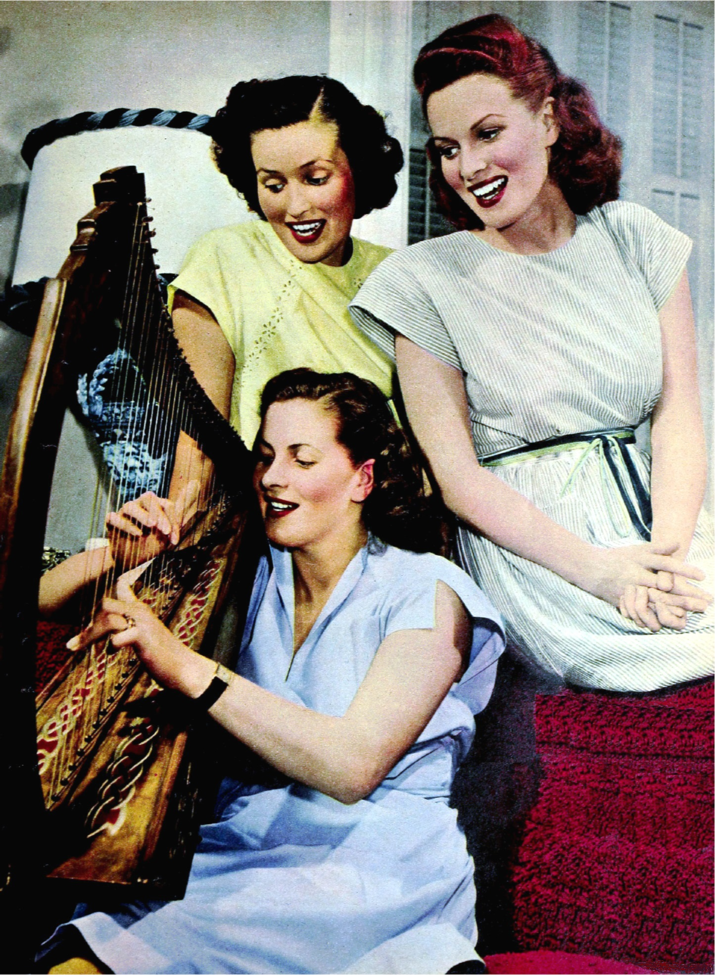 Photo of Maureen O’Hara and two of her sisters from Modern Screen magazine in 1947. Margot is at the left of Maureen O’Hara and Florrie is playing the harp. The O’Hara sisters were photographed in Maureen O’Hara’s home.